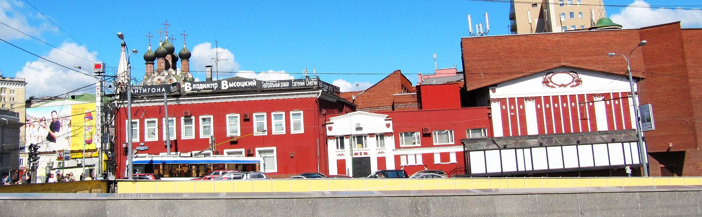 The Taganka Theatre in Moscow, view from Zemlyanoy Val Street.